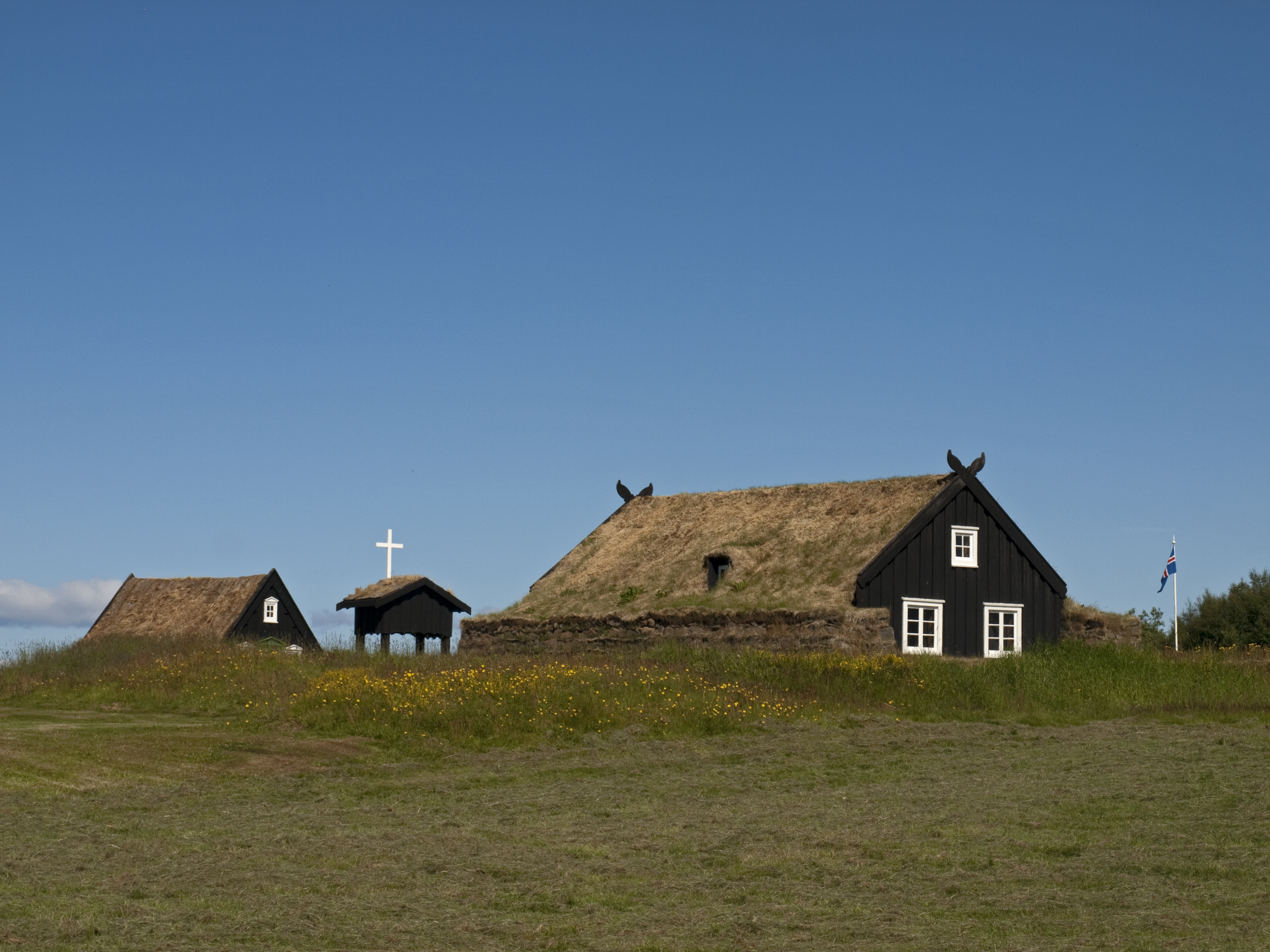 Árbæjarsafn